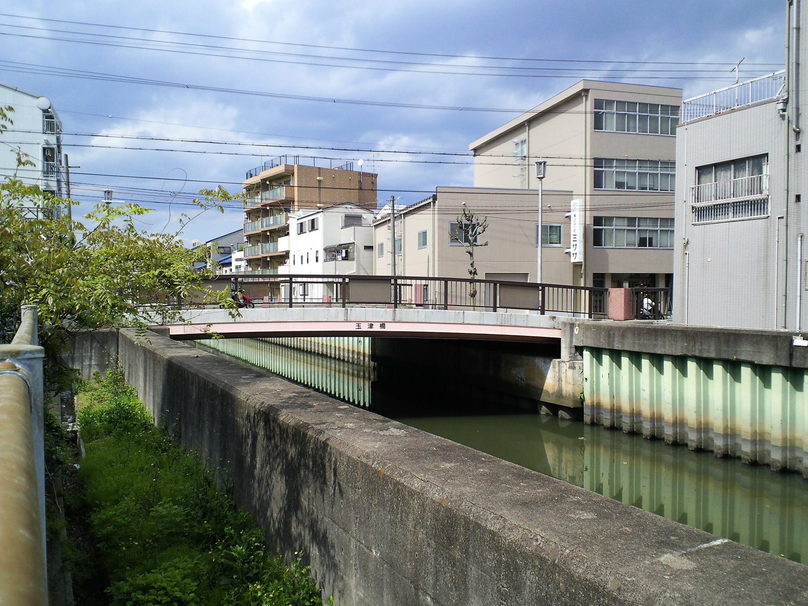 Tamatsu-bashi (Bridge), Higashinari-ku, Osaka